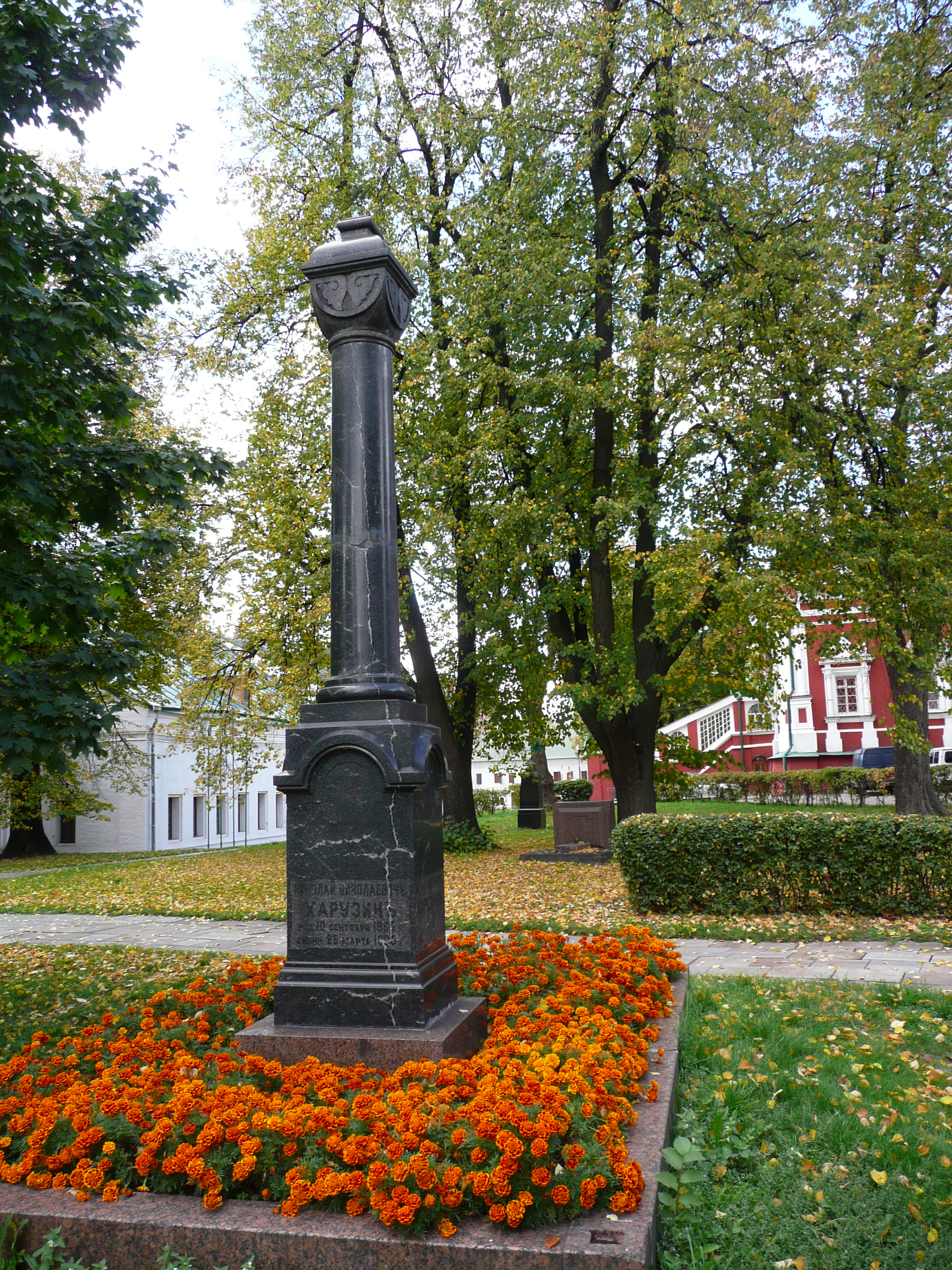 Tomb of Nikolai Kharuzin at the Novodevichy Convent, Moscow